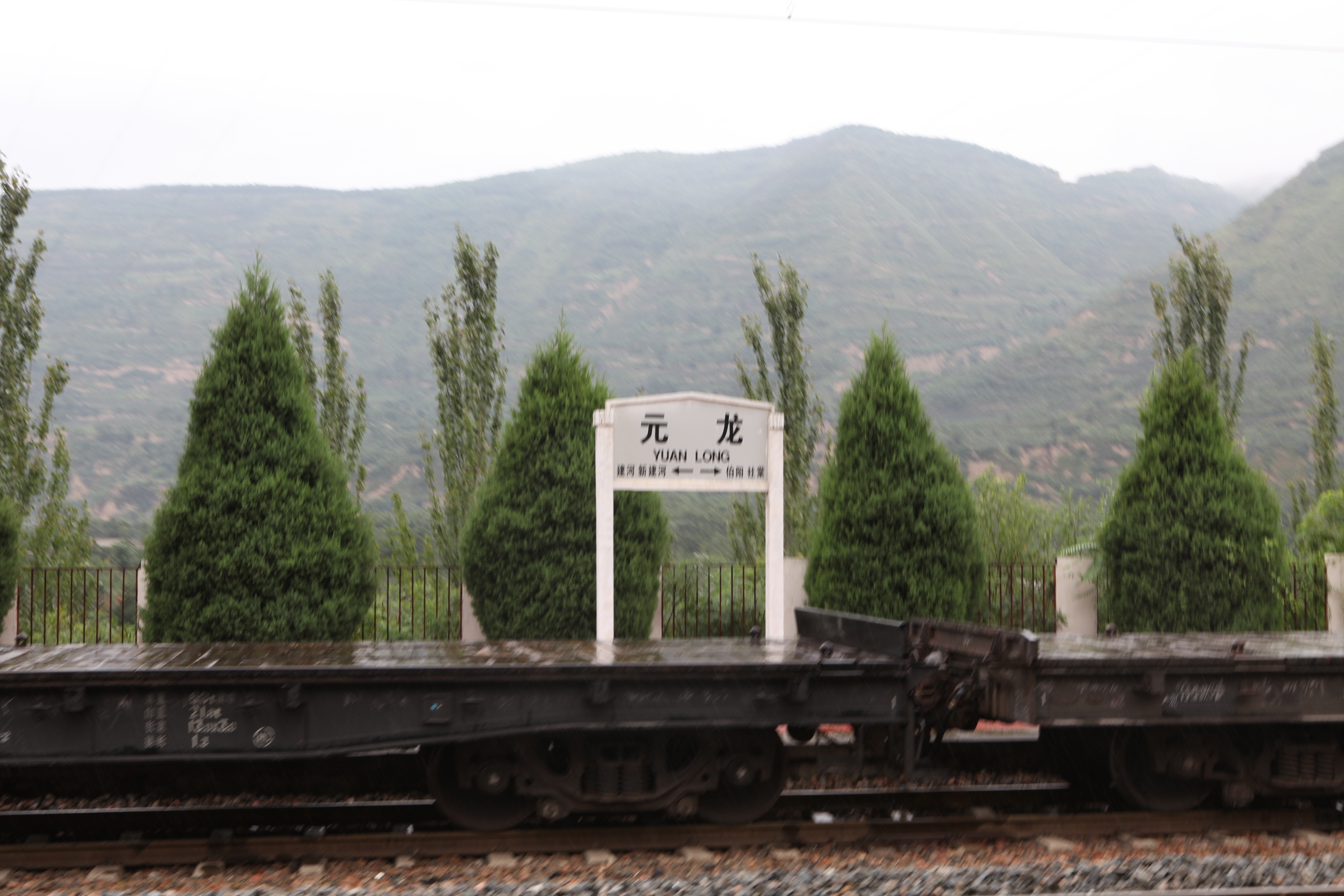 Yualong Station,Longhai Railway